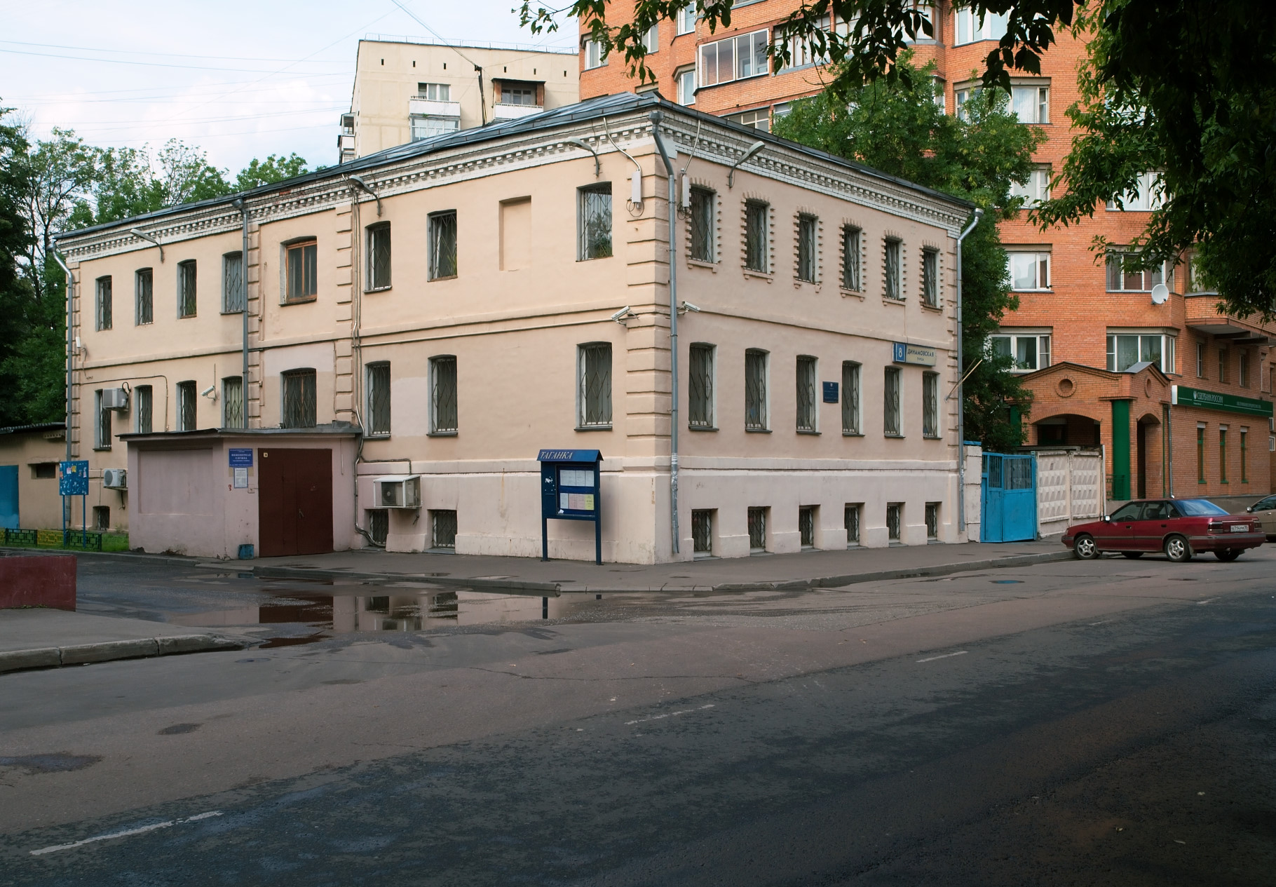 Dinamovskaya Street, Moscow.